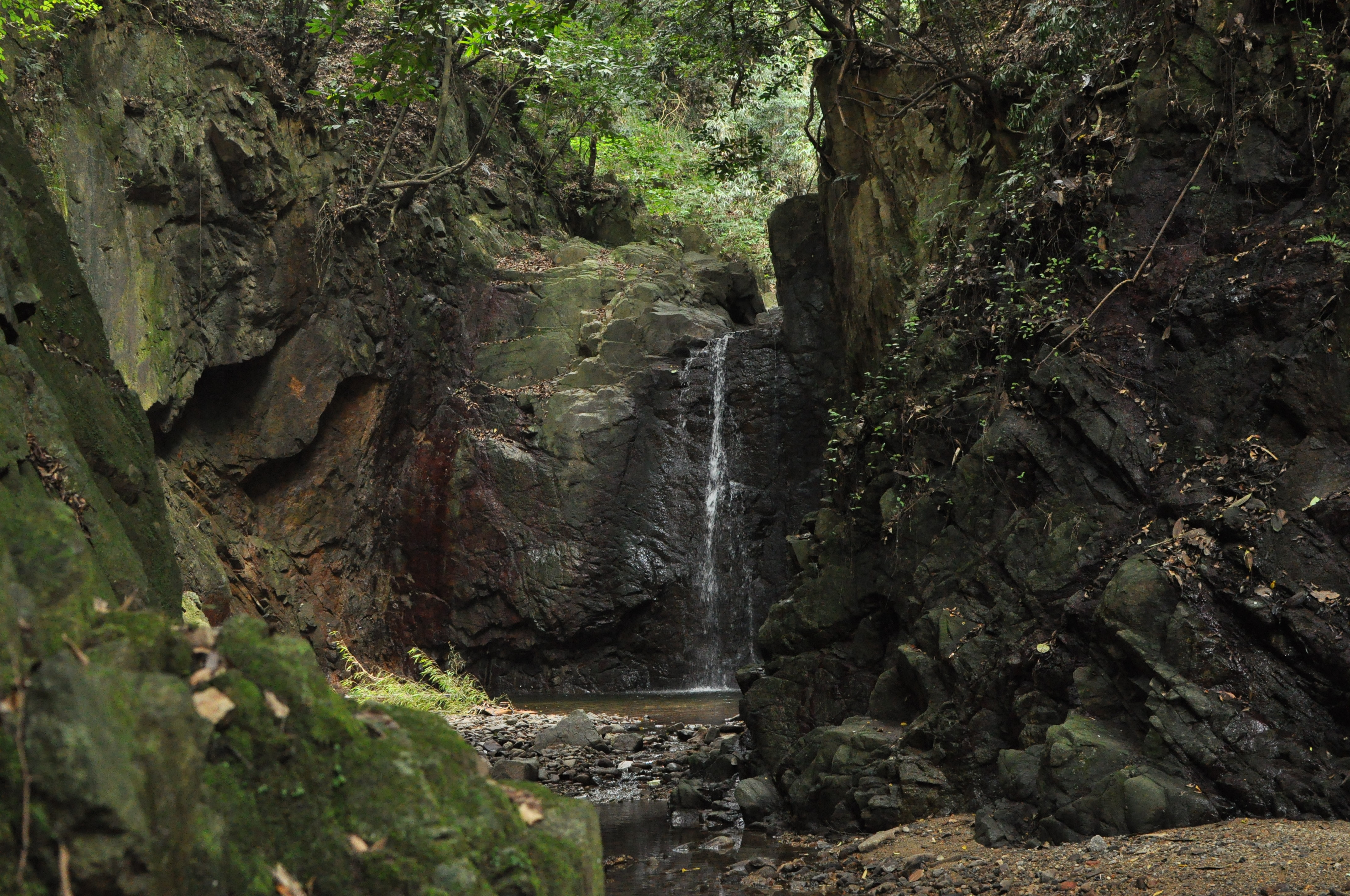 Waterfall in Ogami Jinja (Kishiwada city, Osaka prefecture, Japan.), called "Amehuri-no-taki". Ancient Japanese people did a ritual for rain before this waterfall.